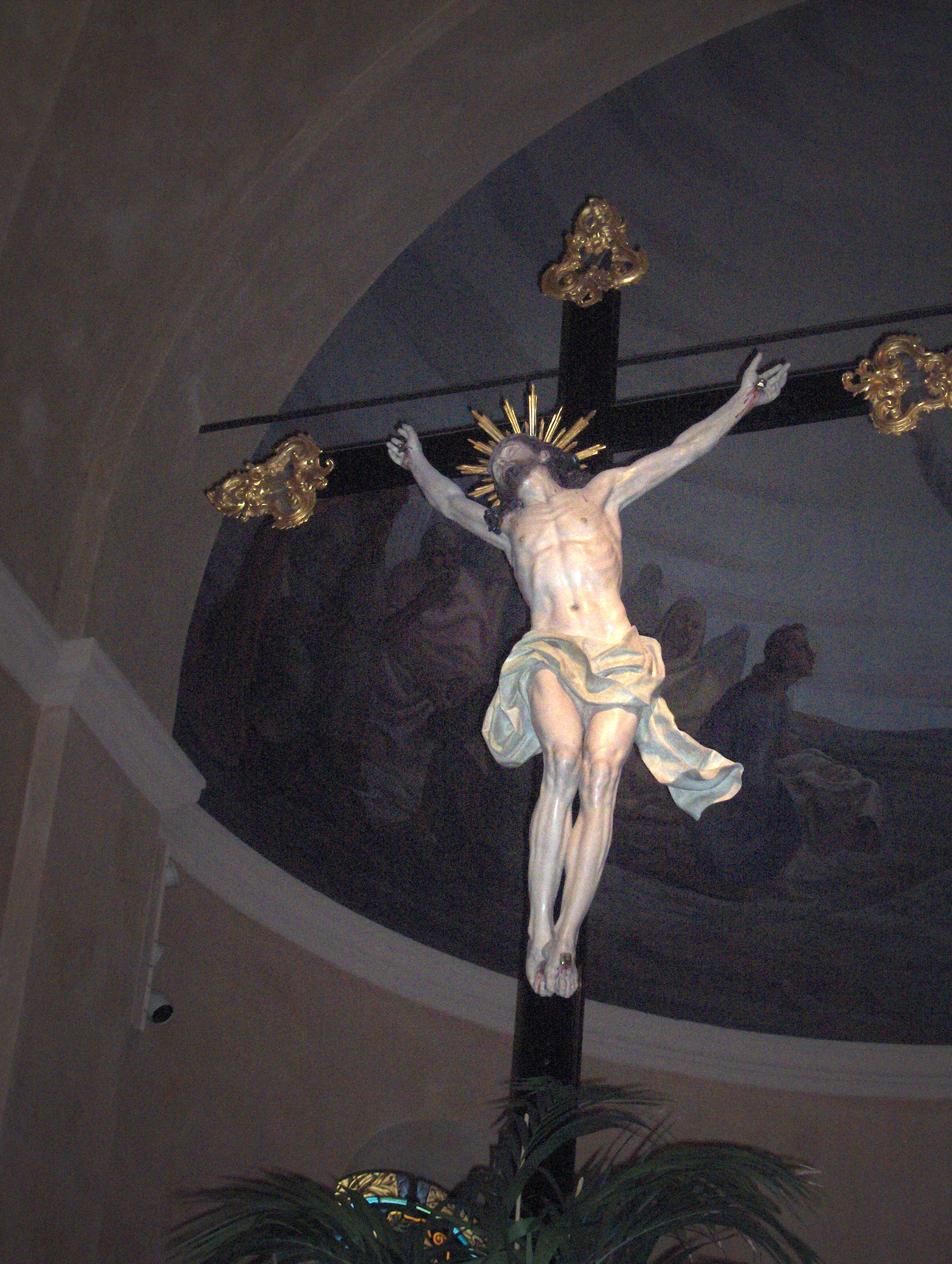 Black crucifix (1723) by Anton Maria Maragliano; Cathedral of San Siro, Sanremo, Italy